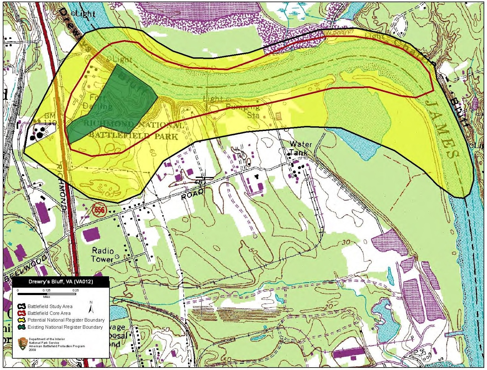 Map of battlefield core and study areas. The CWSAC boundary incorrectly identified actions and lands on the south side of the James River as associated with the May 15, 1862, US naval attack on the CSA fortifications at Drewry’s Bluff. The revised Study Area is limited to the portion of the works and troop positions on the bluffs, and the stretch of river within accurate range of the Confederate guns where the Federal flotilla maneuvered and anchored during the engagement.